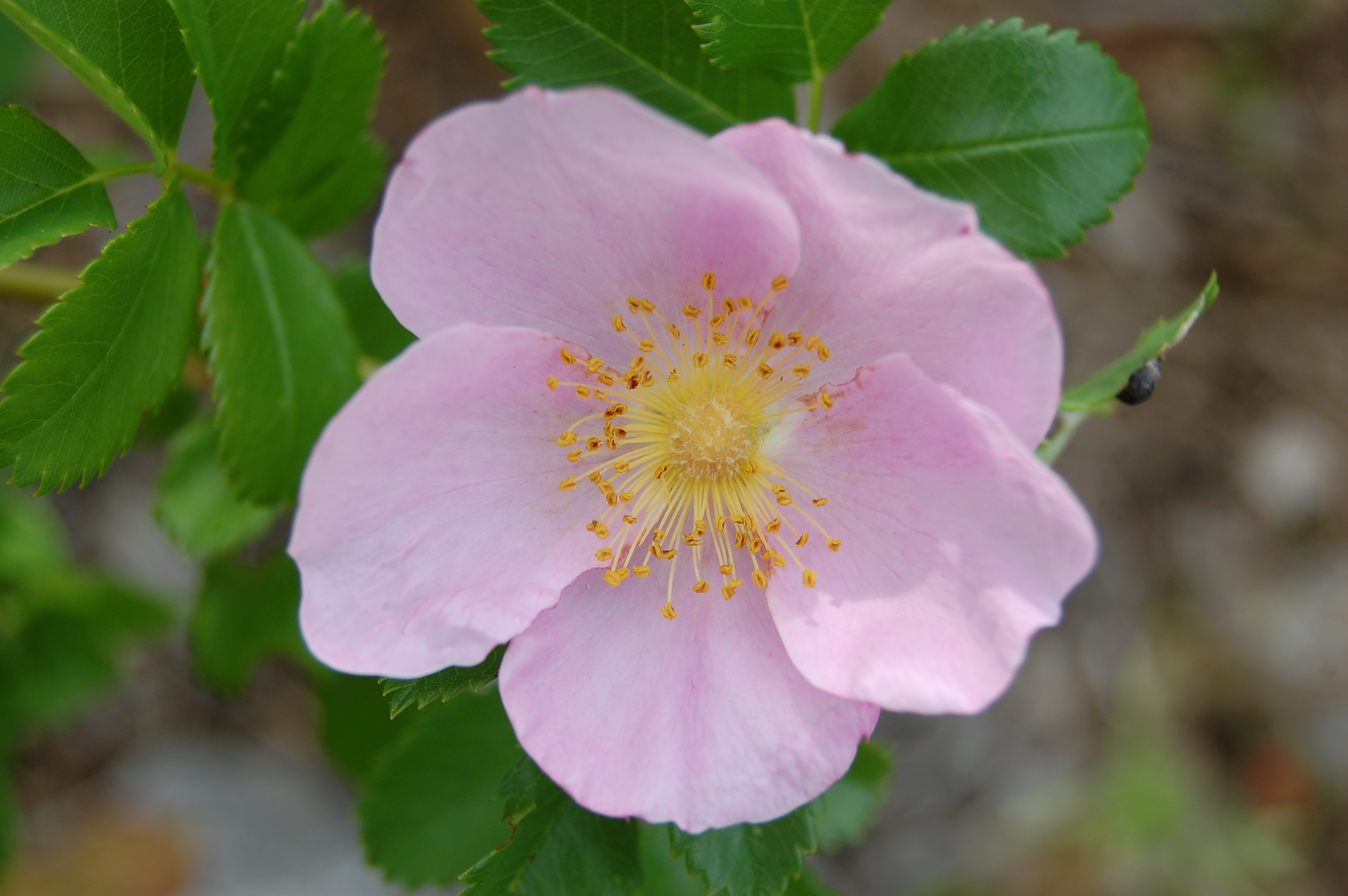 Rosa carolina - Pasture rose - flower